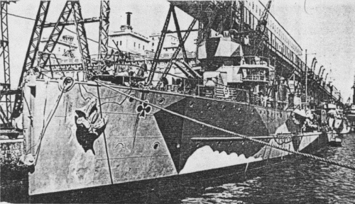 The Romanian scout cruiser Mărășești in 1944